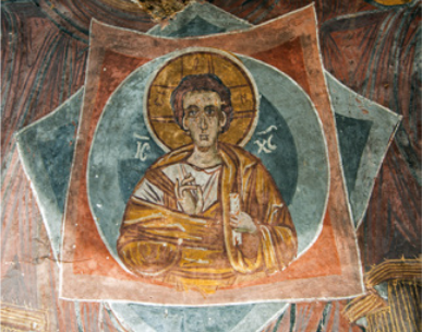 Saint Nicholas Church in Gabrovnik.